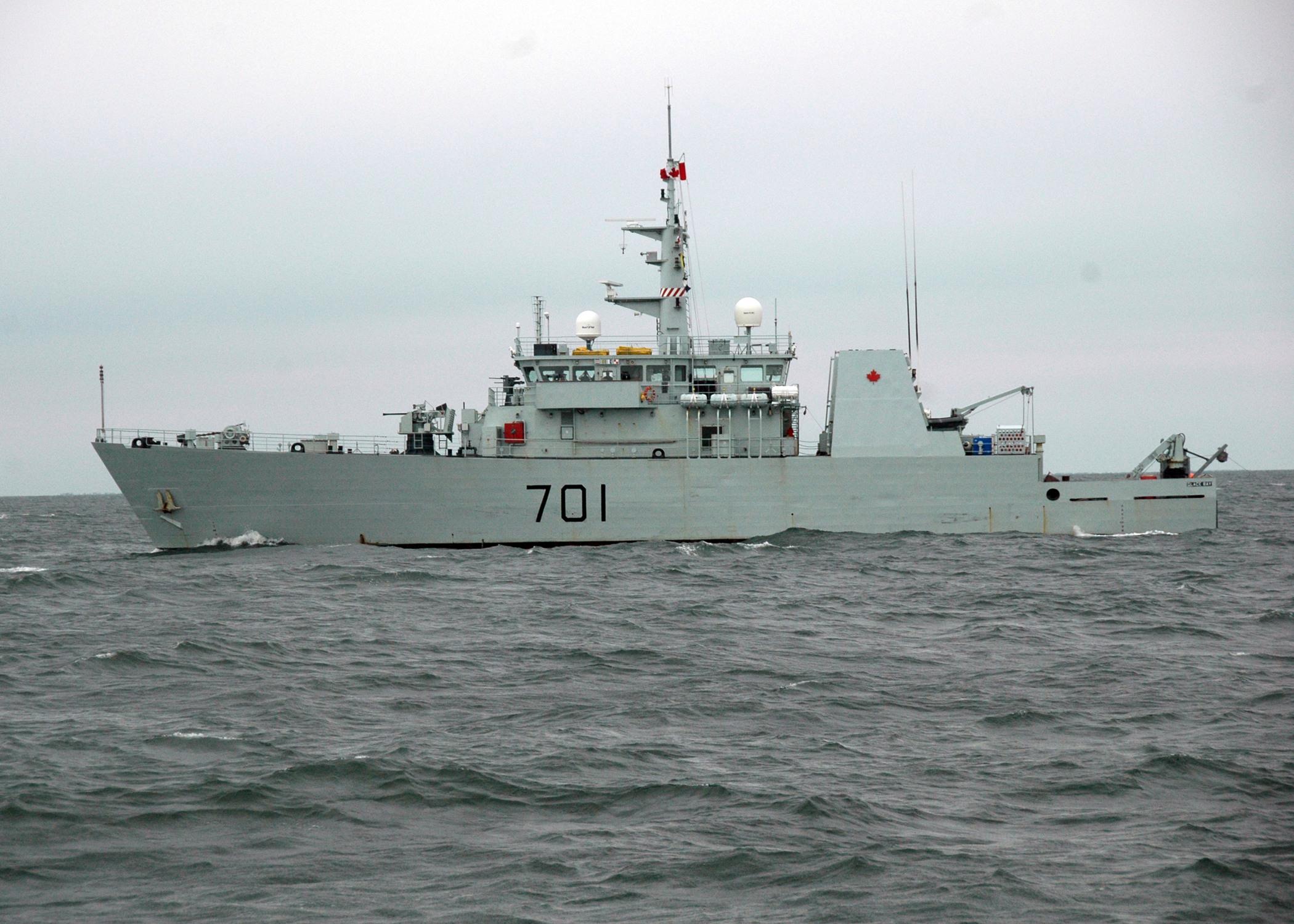 ATLANTIC OCEAN (June 9, 2010) The Canadian navy Kingston-class maritime coastal defense vessel HMCS Glace Bay (MM 701) participates in exercise Frontier Sentinel 2010. An estimated 2,500 Canadian and U.S. military personnel and government civilian agencies are participating in the annual training exercise, which involves the coordinated detection, assessment and response to a mining threat in Hampton Roads that would impede both commercial and military traffic in the Chesapeake Bay. The exercise also tests the response of military and civil authorities to a vessel that may be carrying a potential weapon of mass effect. (U.S. Navy photo by Mass Communication Specialist 2nd Class Rafael Martie/Released)